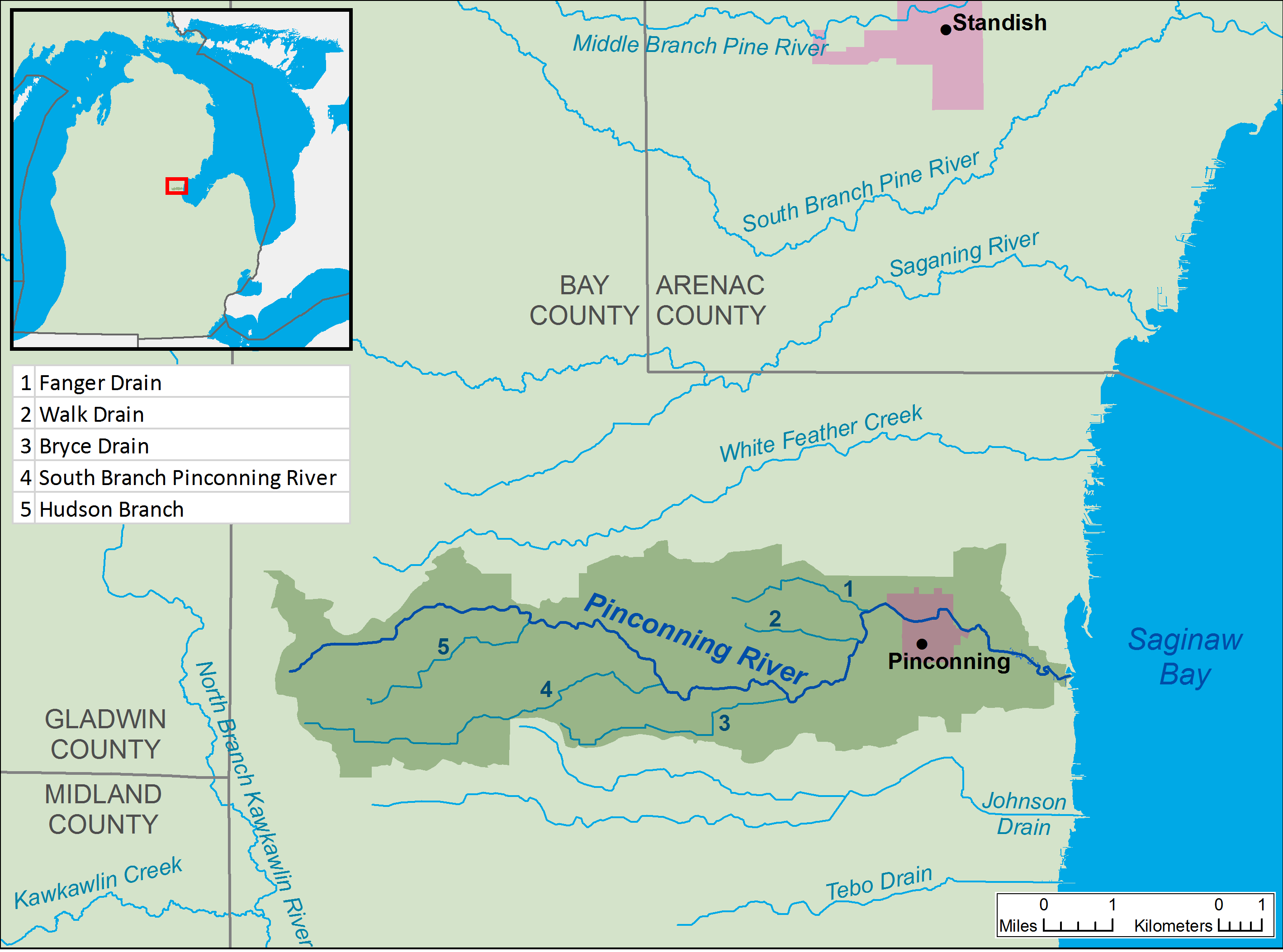 A map of the Pinconning River and its watershed (USGS HUC-12 code 040801020107), in northern Bay County in Michigan